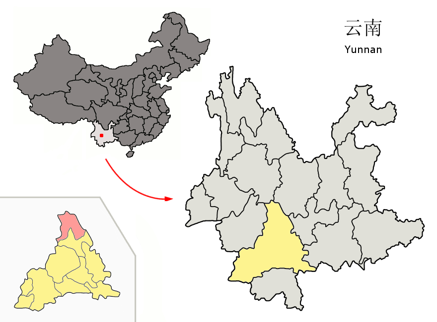 Location of Jingdong County (pink) and Pu'er Prefecture (yellow) within Yunnan province of China Map drawn in september 2007 using various sources, mainly : Yunnan province administrative regions GIS data: 1:1M, County level, 1990 Yunnan Counties map from